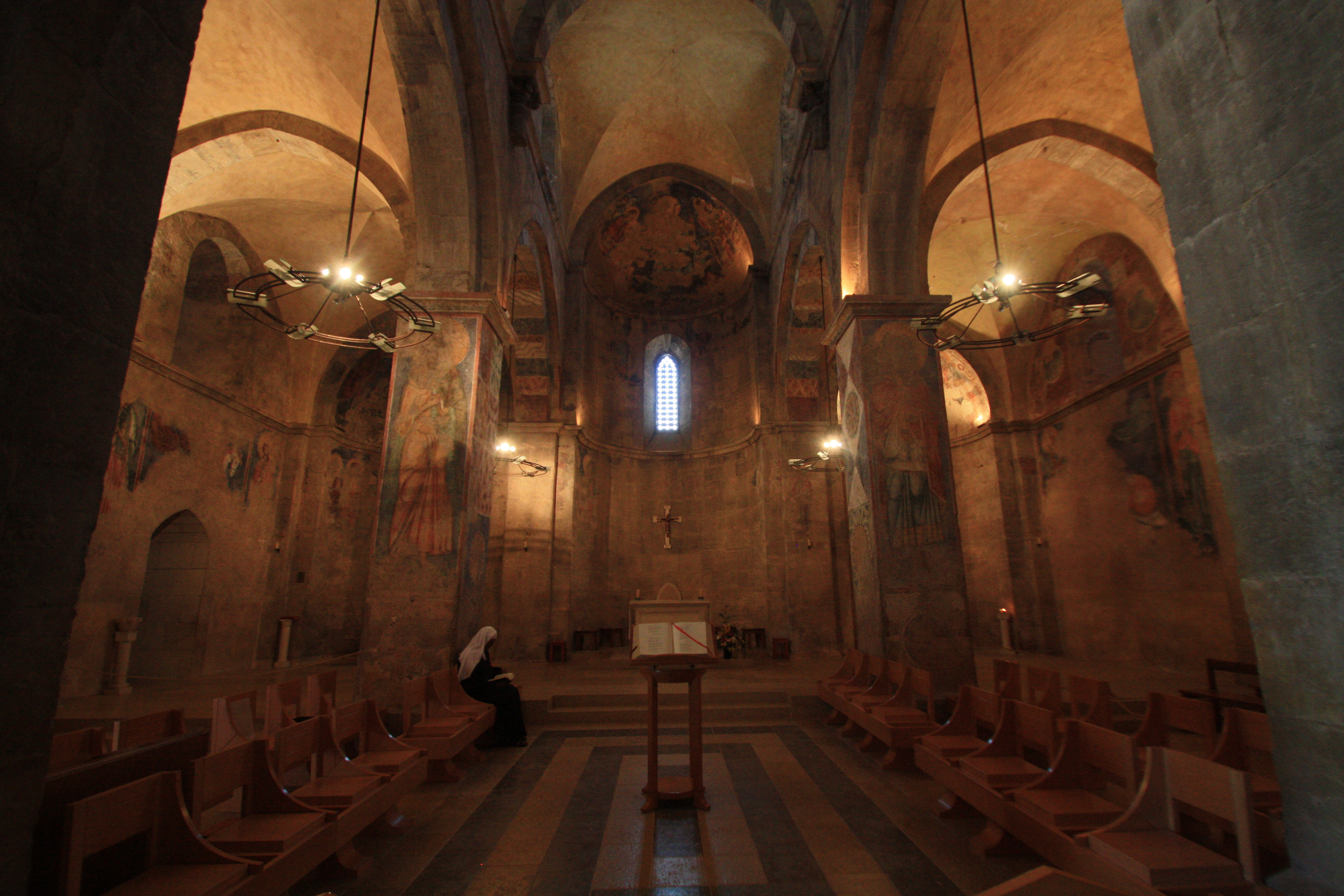 Interior view of the Resurrection Church in Abu Ghosh, Israel